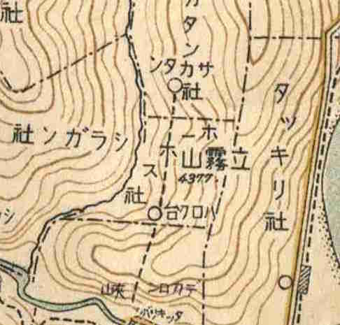 Huhus, Karenko Prefecture, Formosa